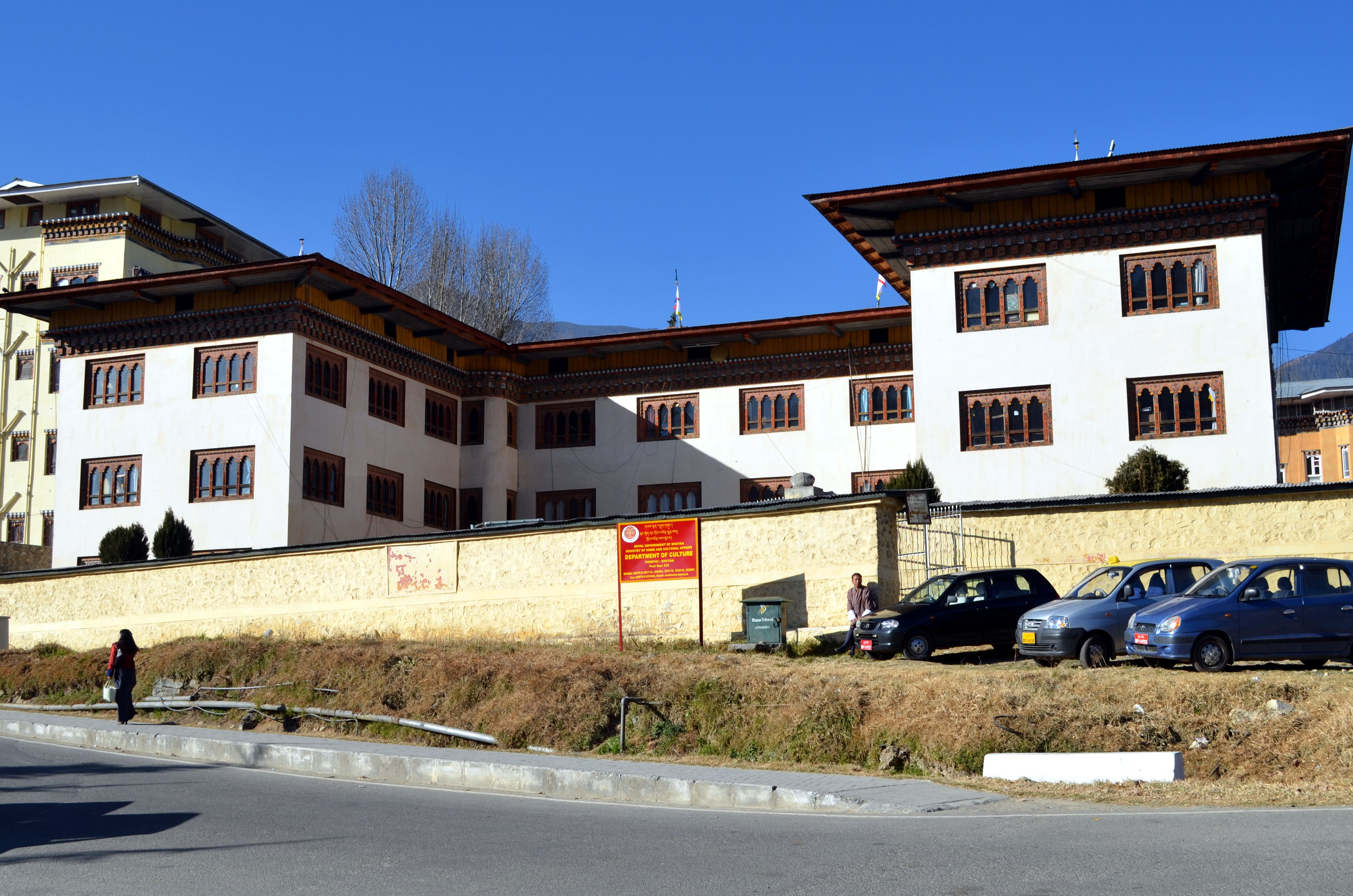 Department of Culture building. Thimphu, Bhutan